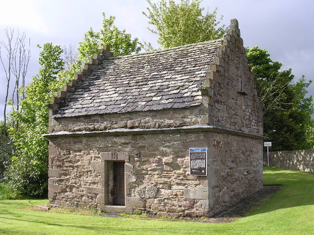 The Tealing Dovecote. The Dovecote, which is in the care of Historic Scotland was built in 1595 by Sir David Maxwell of Tealing